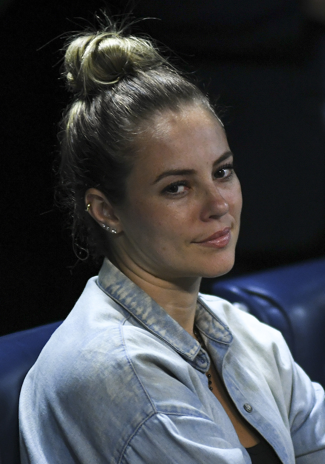 Plenário do Senado Federal durante sessão deliberativa ordinária.Atrizes acompanham sessão onde senadores aprovarão projetos que aumentam proteção aos animais.Em destaque, atriz Paola Oliveira.Foto: Jefferson Rudy/Agência Senado